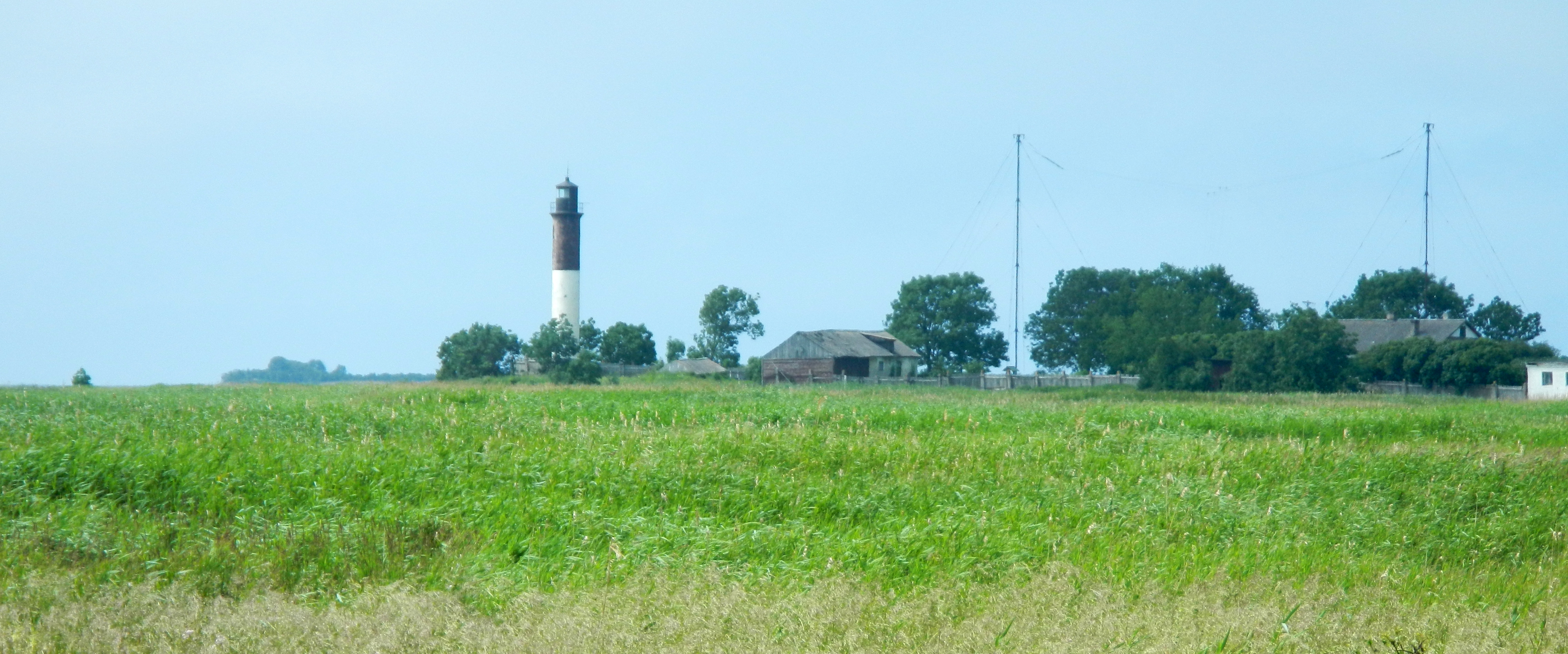 Kübassaare on Saaremaa Island, Estonia. View from the north.